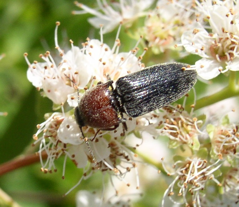 Click beetle, Melanotus leonardi, on meadowsweet. Size: 7-10 mm. Top of Cadillac Mountain, Acadia National Park, Hancock County, Maine, USA.